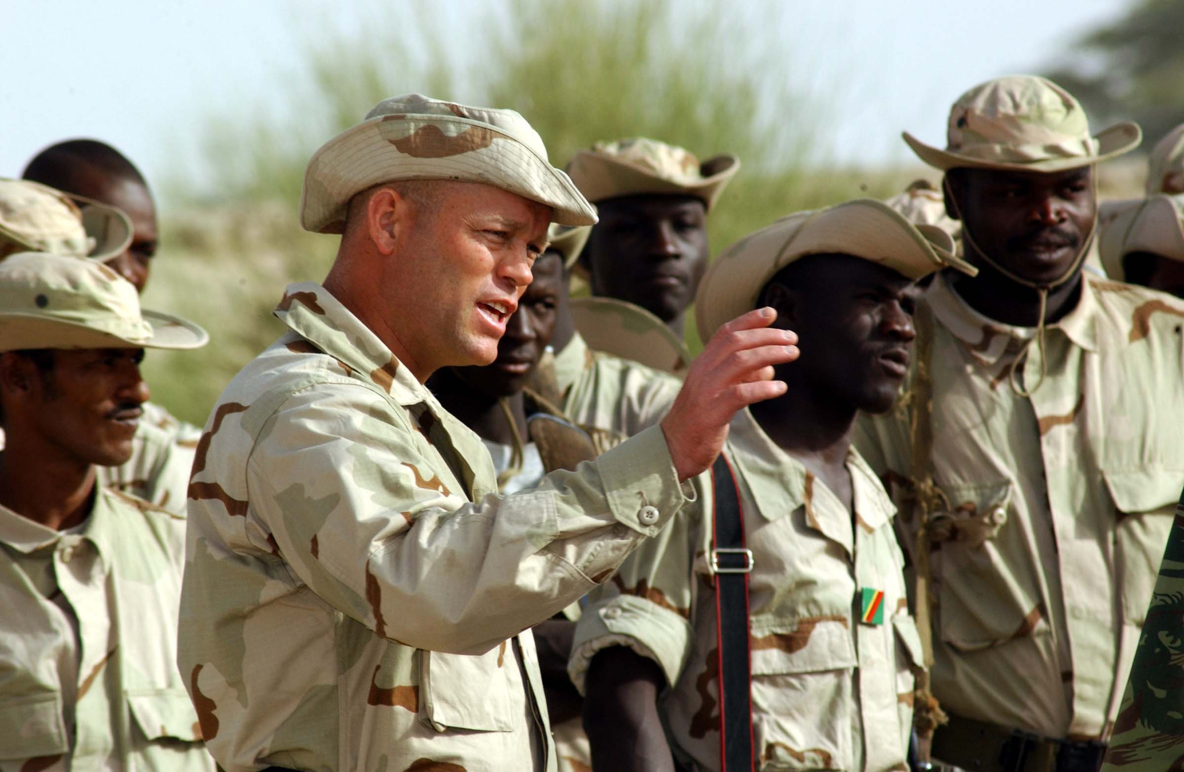 Photograph of 10th Special Forcecs Group soldiers in Mali training local military forces